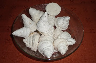 A Typical Macroon made in Tuticorin